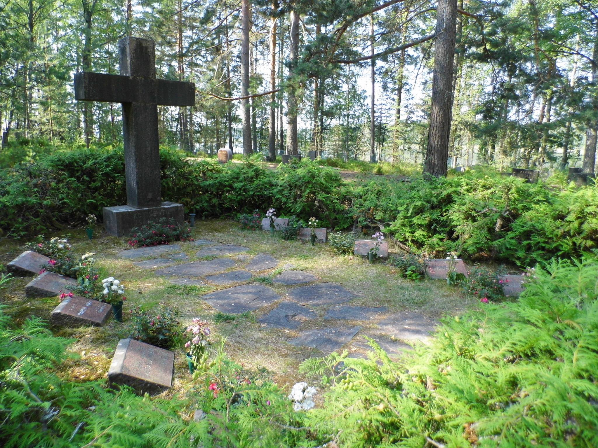 Military cemetary at church in Mäntysaari (Valkeala), Finland